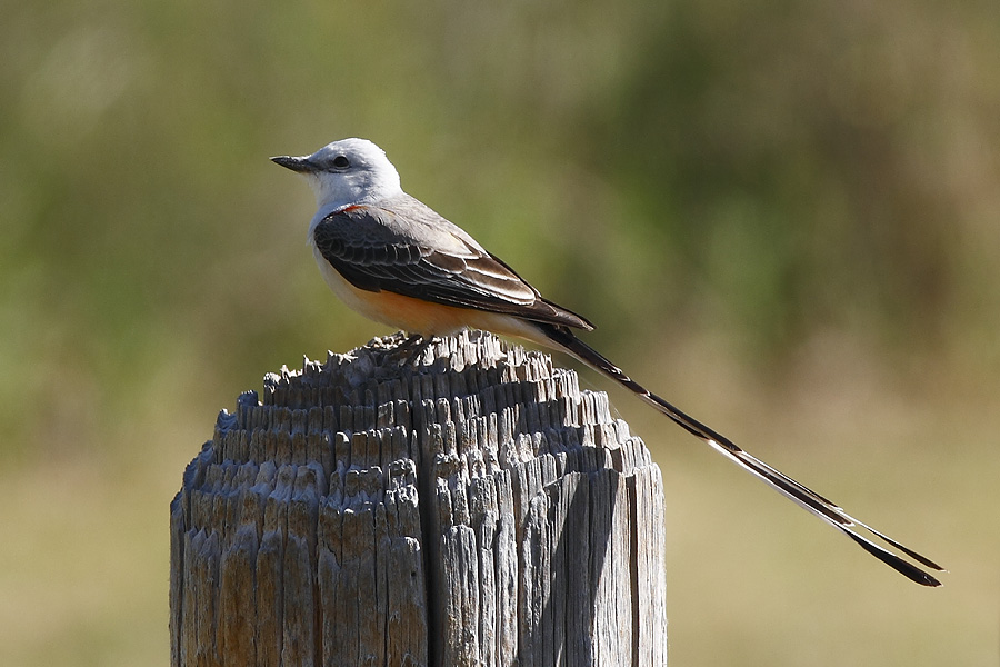 Scissor-tailed Flycatcher photographed in Corpus Christi, TX, USA